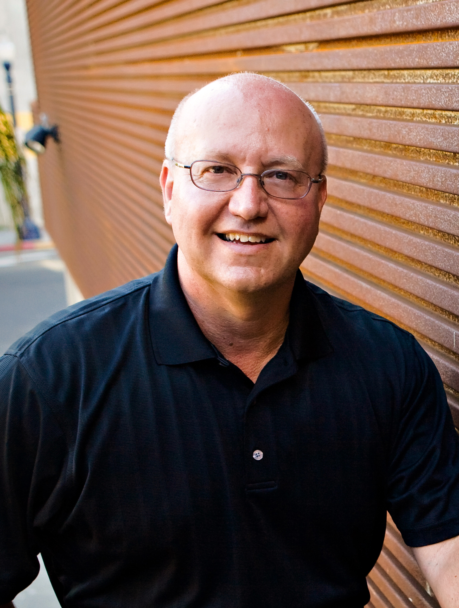 Image of Mark Whitacre